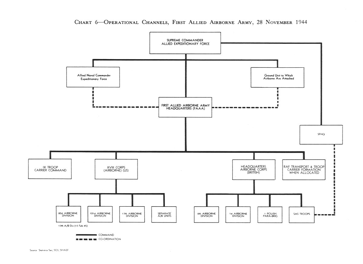 OPERATIONAL CHANNELS, FIRST ALLIED AIRBORNE ARMY, 28 NOVEMBER 1944